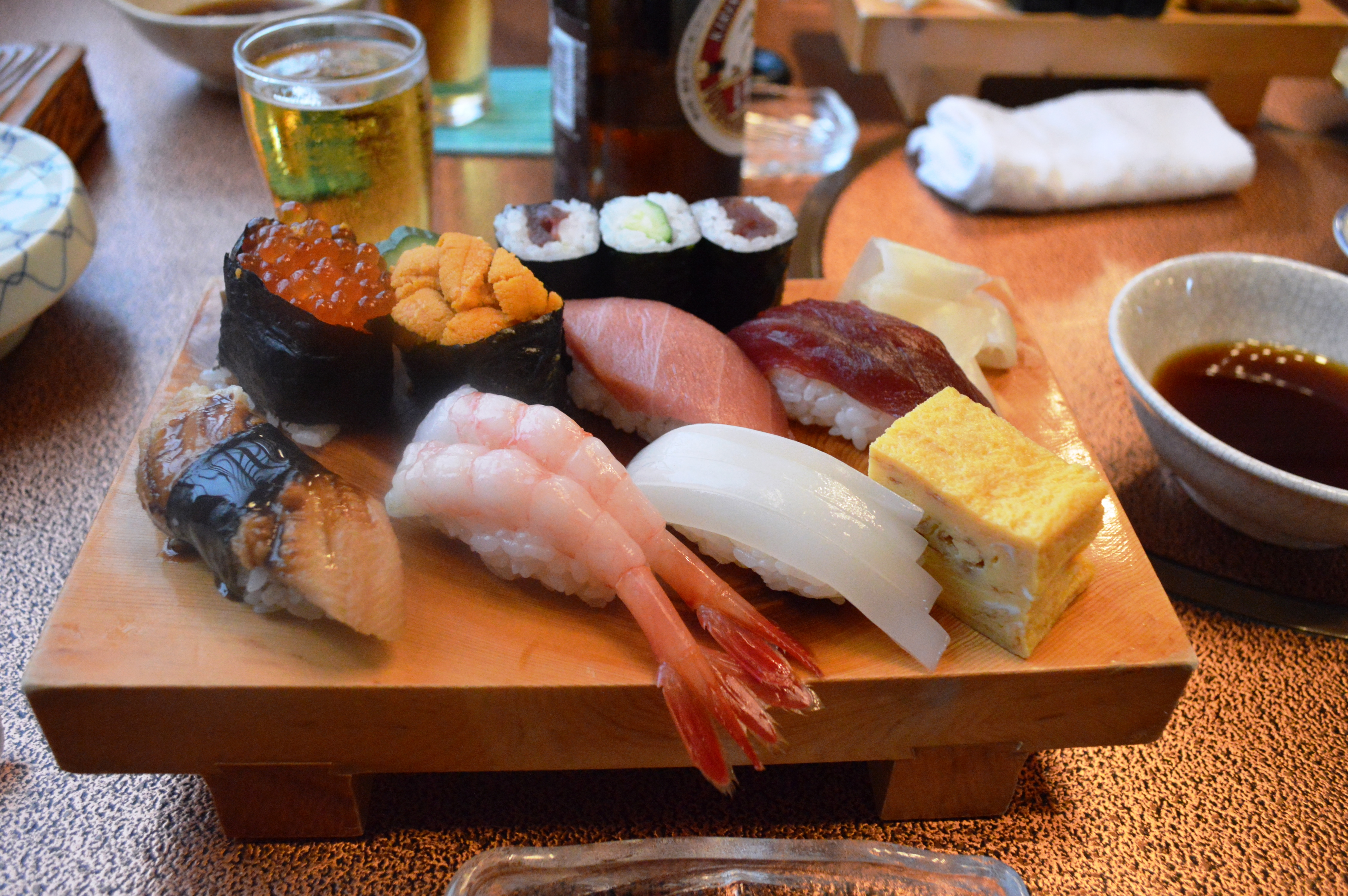 A serving of authentic nigirizushi (握り寿司) at a sushi restaurant in Kanagawa Prefecture (神奈川県), Japan.